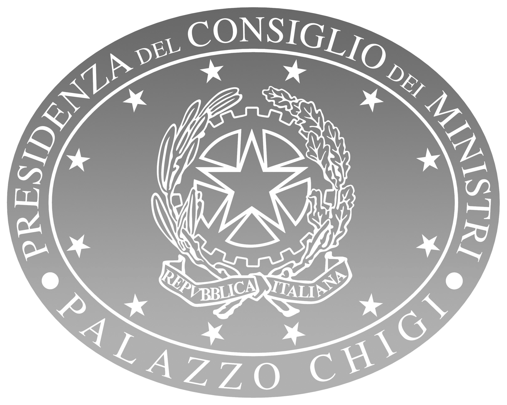 CDM logo